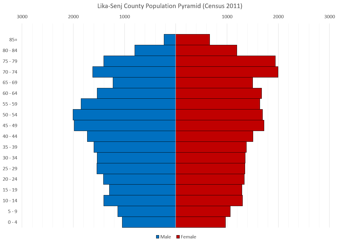 Population pyramid of Lika-Senj County. Version in English. Data from 2011 Census; available at